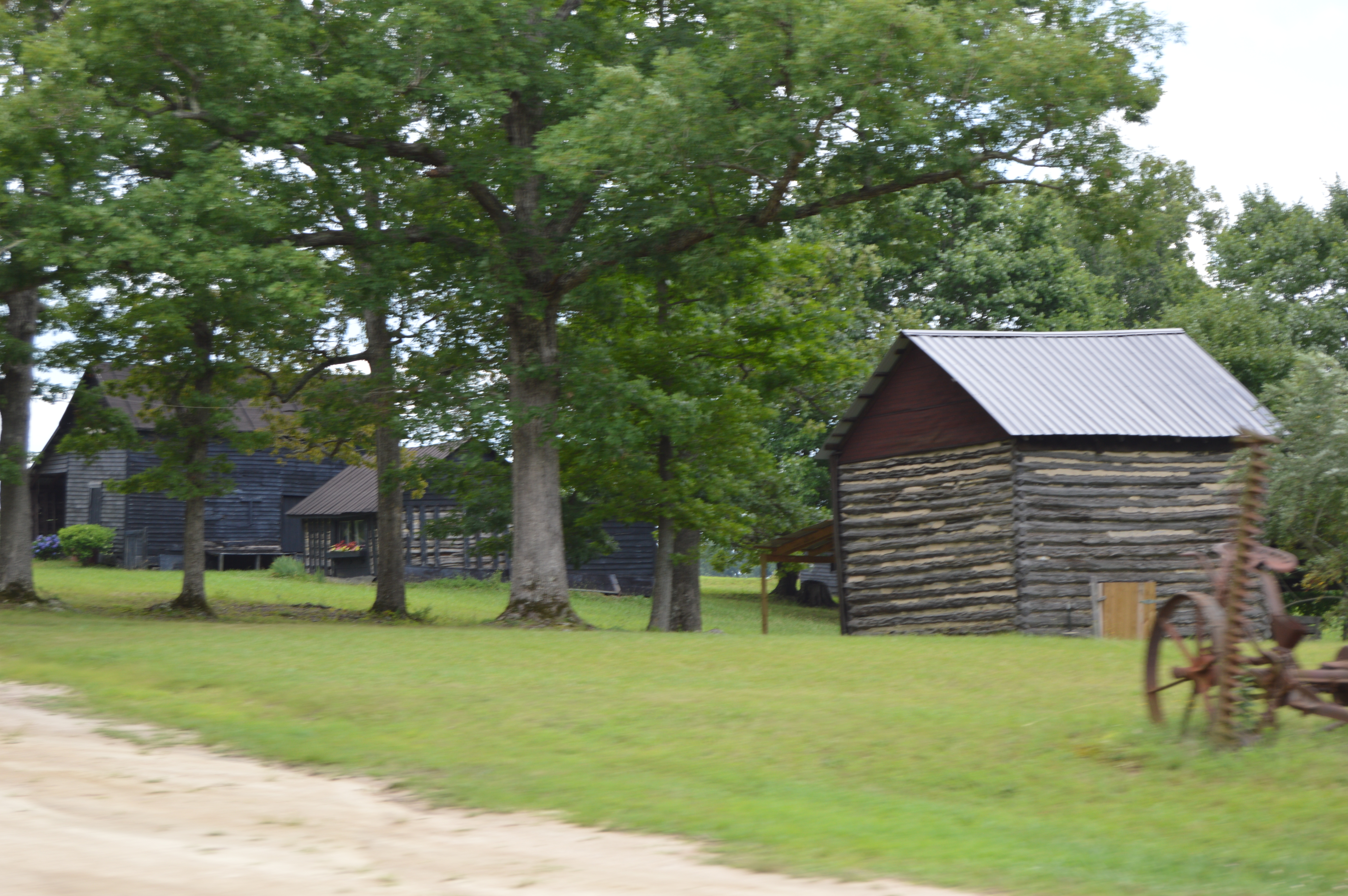 Roadside view of buildings at Red Fox Farm, located along Skipwith Road north of Skipwith in Mecklenburg County, Virginia, United States. The complex is listed on the National Register of Historic Places.